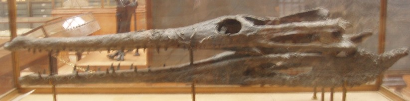 Skull of Proexochokefalos heberti, a fossil crocodile from the Middle Jurassic